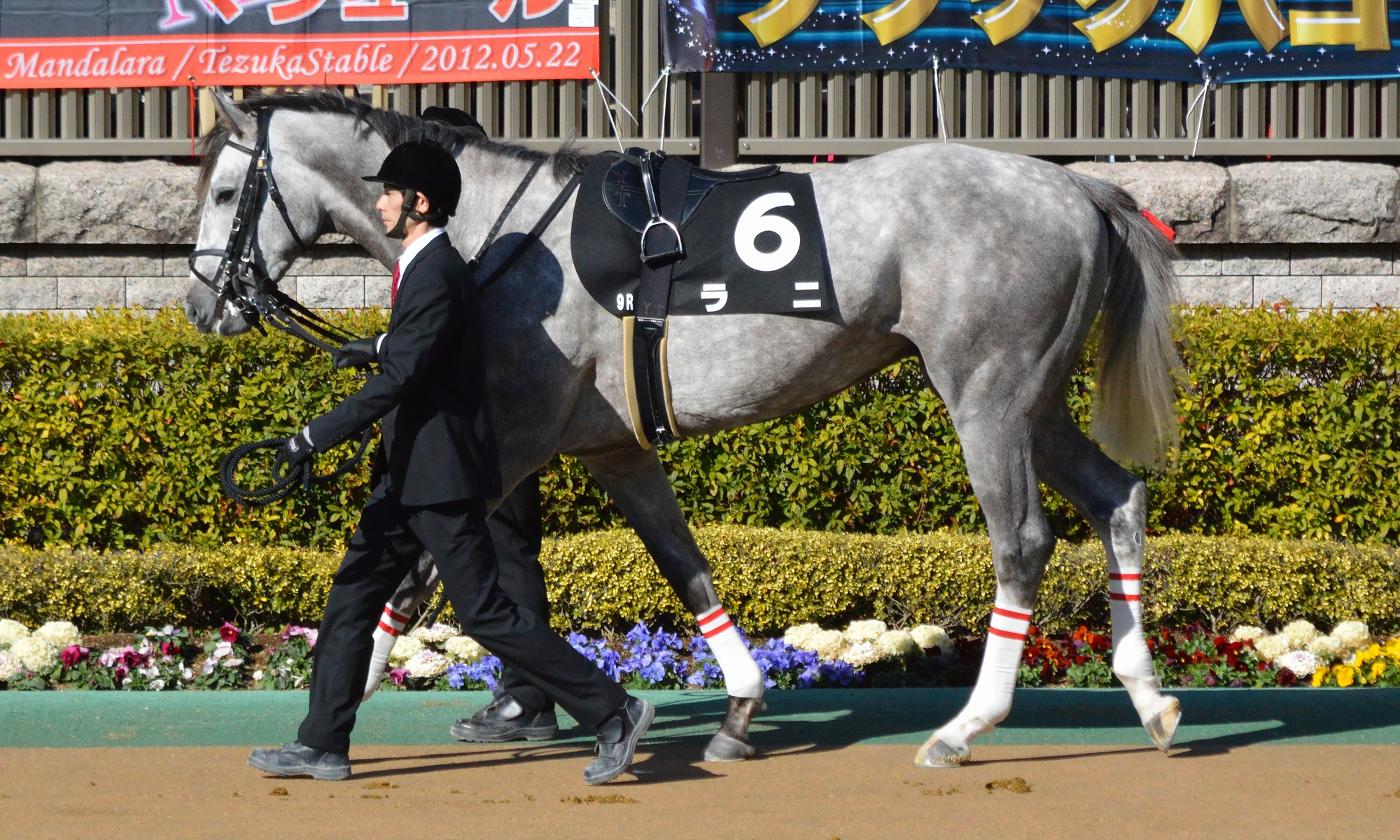 Japanese race horse Lani at Tokyo racecourse. Tokyo (JPN) 21 Feb 2016 Hyacinth Stakes (Listed Race) (3yo) (Dirt) 1m Muddy RankHorse NameOddsAgeWgtTrainerJockey1stGold Dream (JPN)63/10C38-11Osamu HirataHironobu Tanabe2ndStrong Barows (USA)58/10C38-11Noriyuki HoriKeita Tosaki3th - 4th/omission5thLani (USA)13/5C38-11Mikio MatsunagaYutaka Take